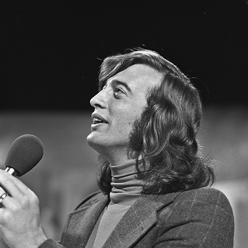 Robin Gibb (Bee Gees) in AVRO's TopPop (Dutch television show) in 1973